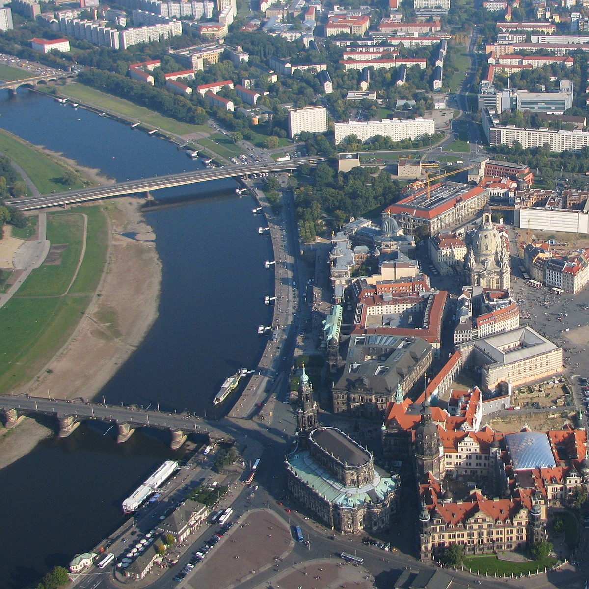 Dresden aerial photo City Augustus bridge across river Elbe cathedrale Church of Our Lady photo 2008 Wolfgang Pehlemann Germany HSBD4389